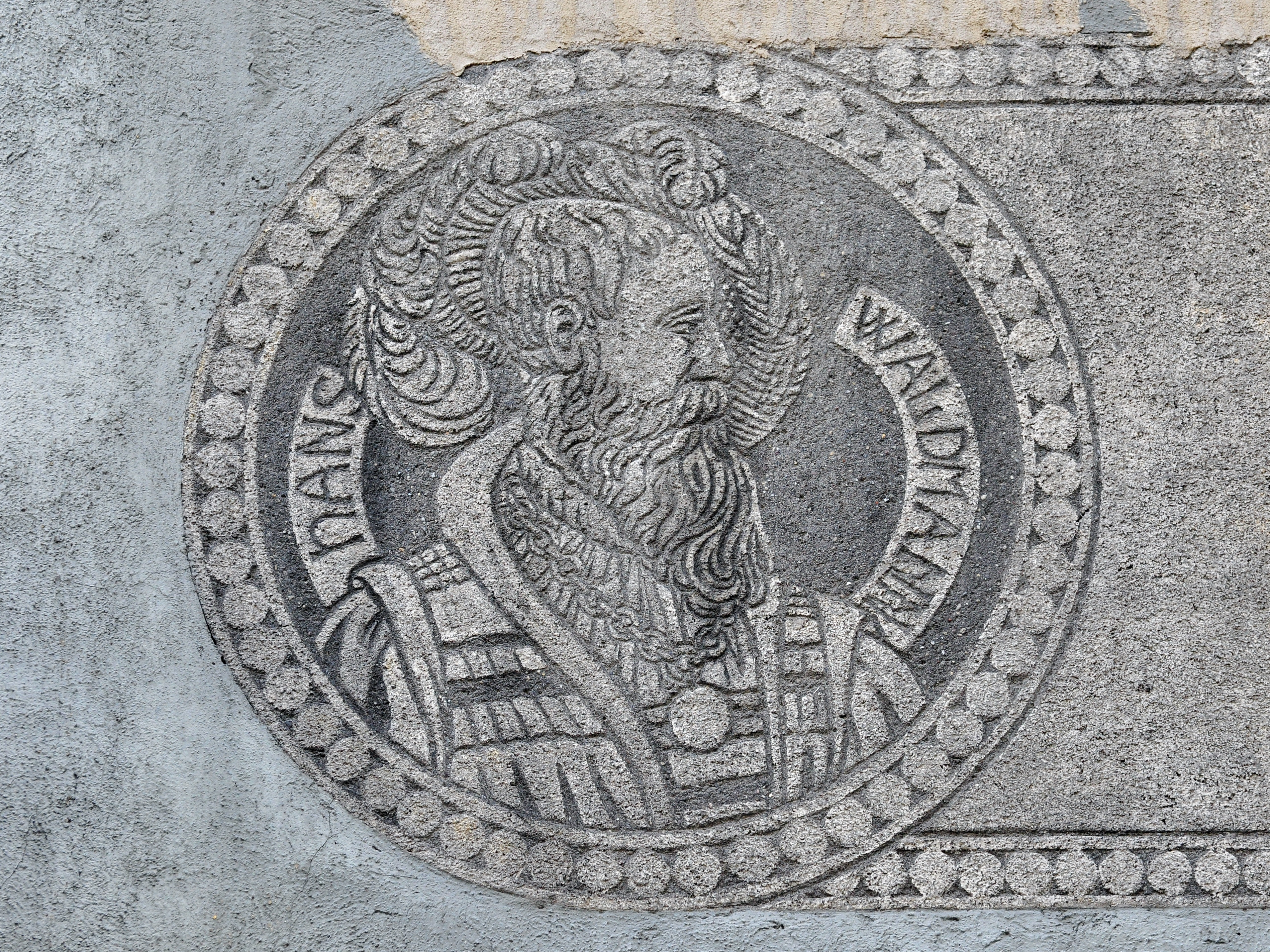 Zürich-Altstadt : Hans Waldmann (* 1435; † 1489), «Weinstuben Oepfelchammer» (Rindermarkt 12), maybe a historical 'Portrait', maybe not.